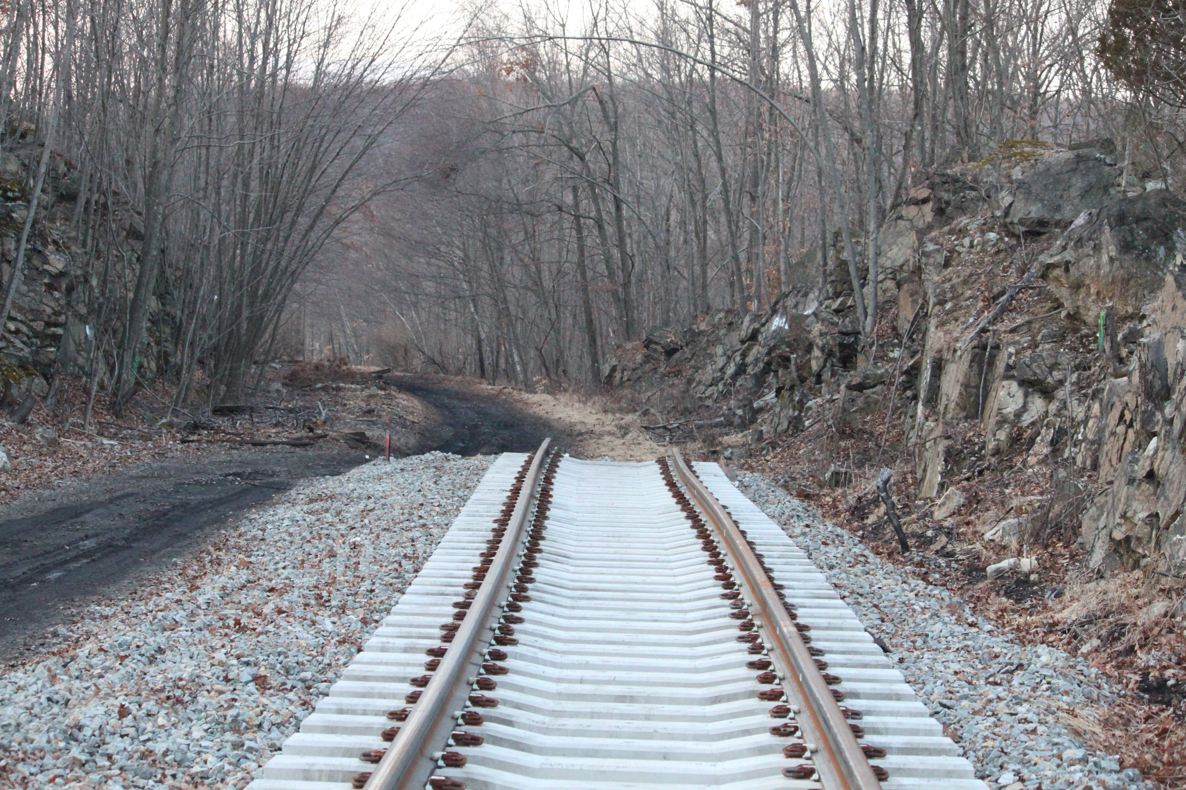 Temporary end of track on Lackawanna Cut-Off near Lake Lackawanna, NJ on Feb 17, 2012.